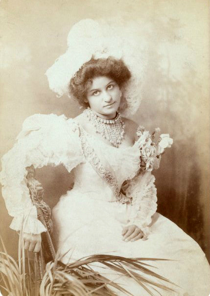 Belle Davis once-billed-as-"americas-greatest-coon-cantatrice-of-the-century" guess date as 1900. She would have been 24 and she left for the UK in 1902